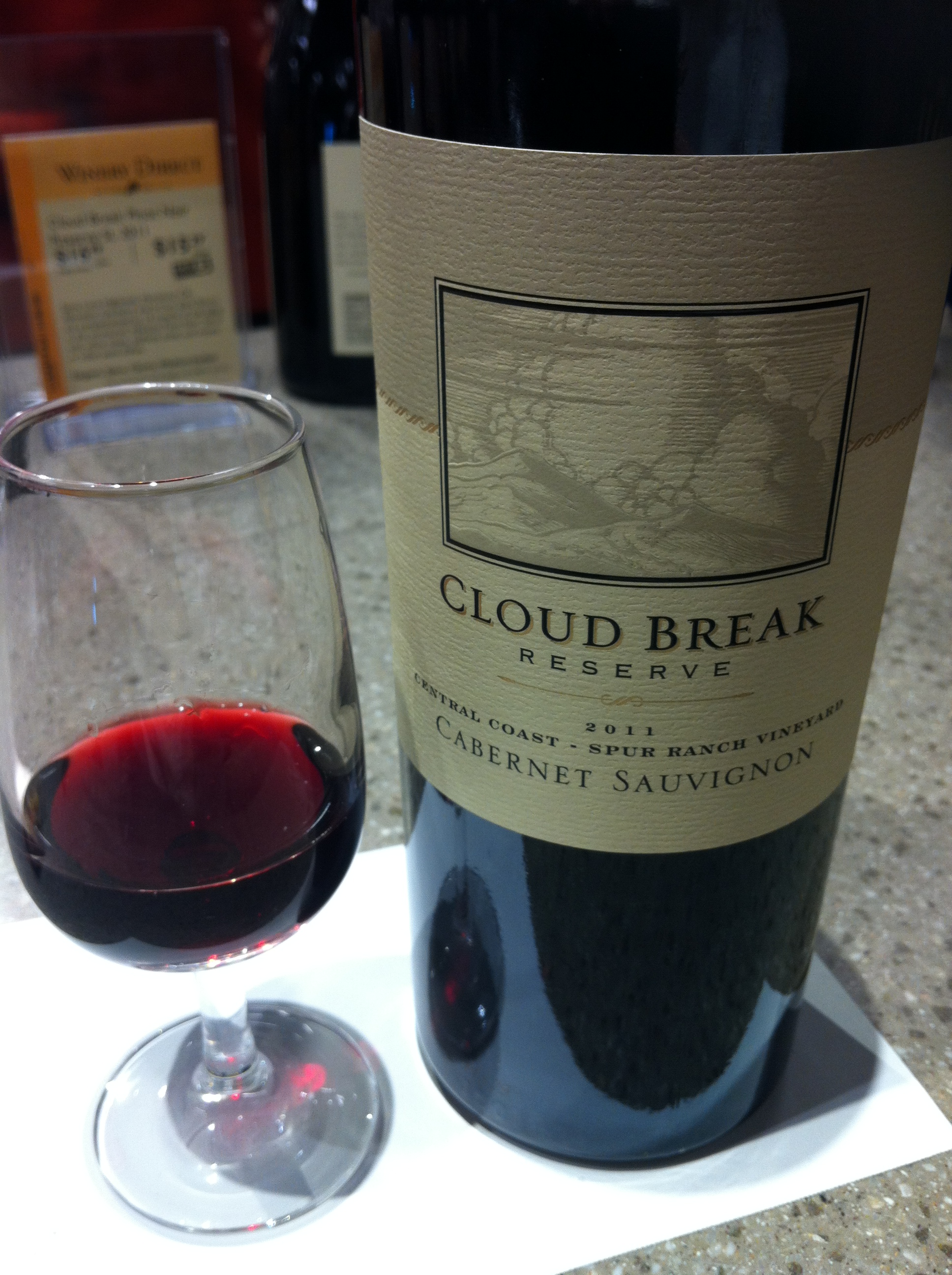 California Cabernet Sauvignon from the Central Coast region